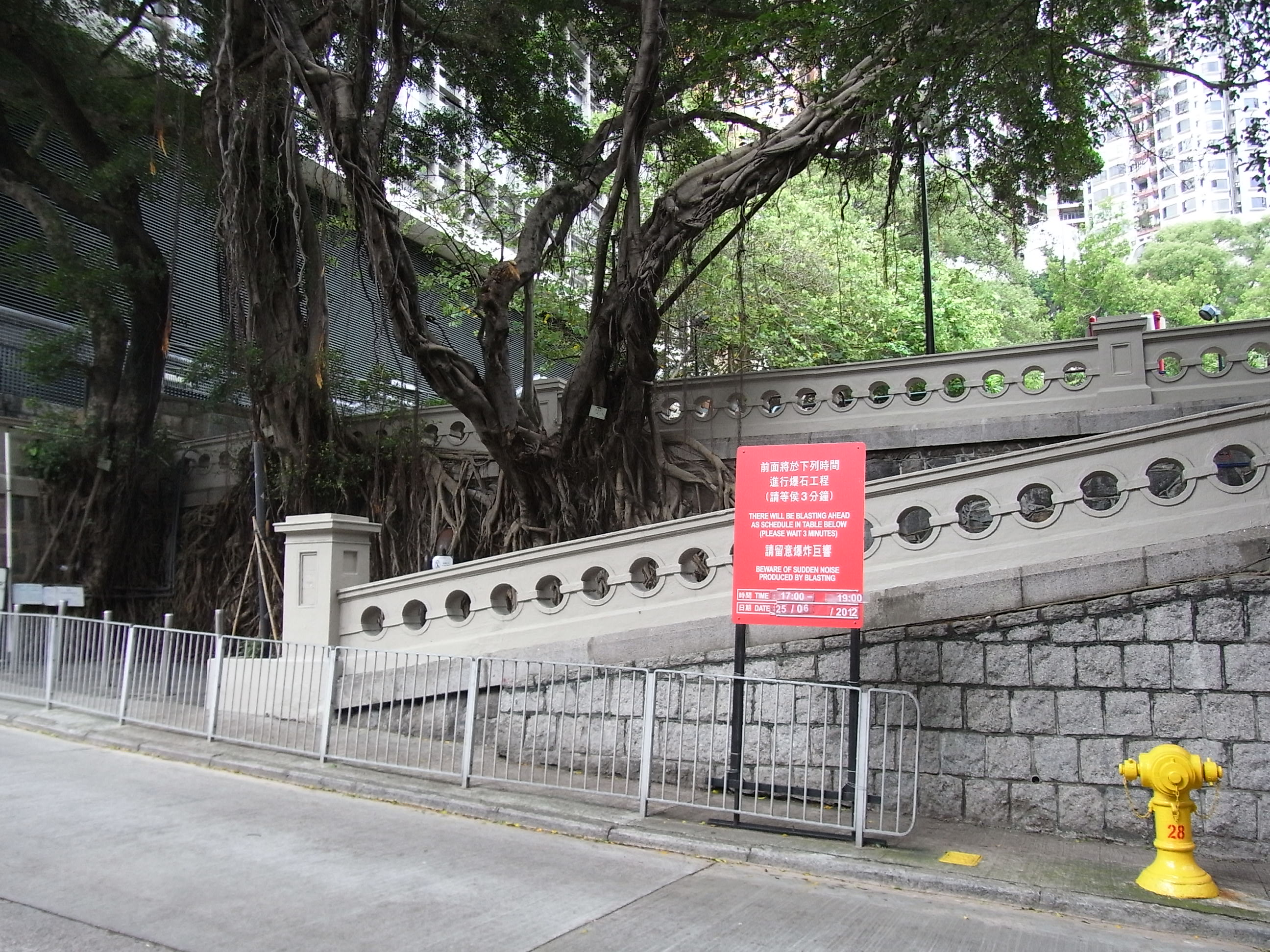 上環 醫院道, Hospital Road, Sheung Wan, Hong Kong